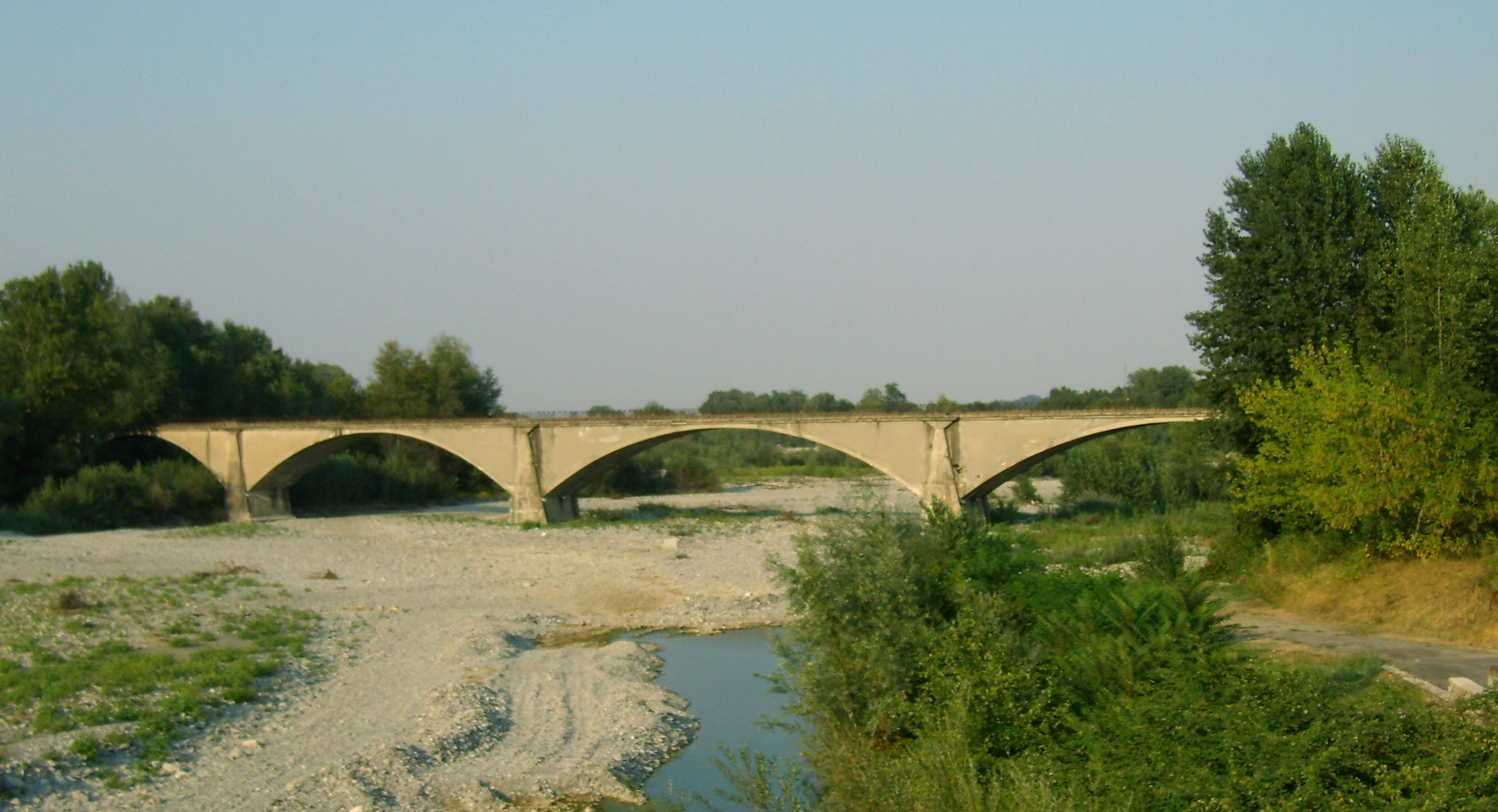 Old railway bridge in Ponte dell'Olio (PC), Italy